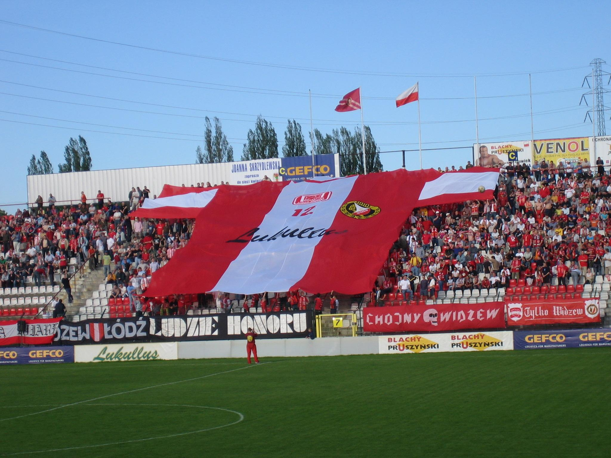 Widzew fans during a match in Lodz.